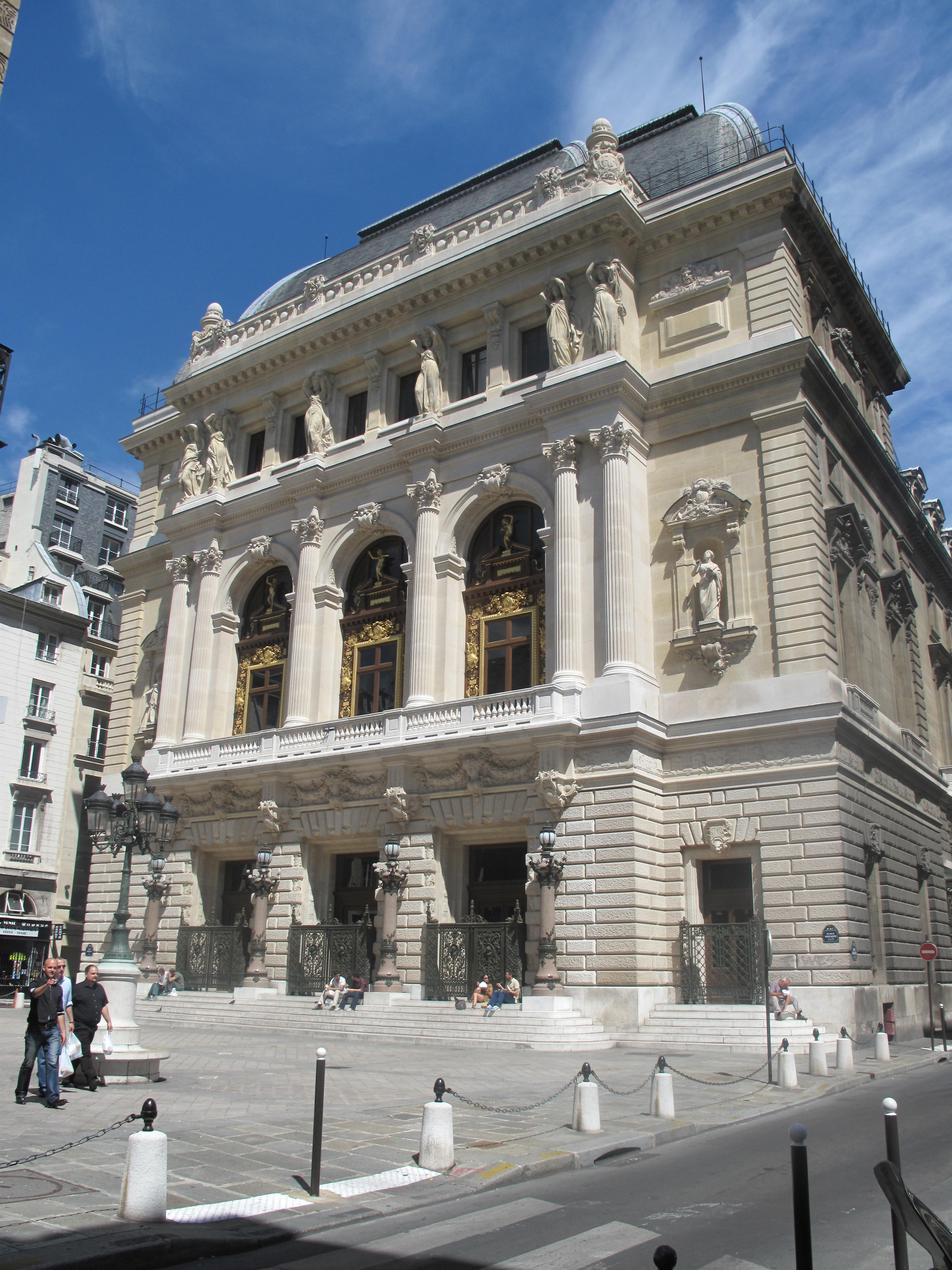 Theater of the l'Opéra-Comique (sometimes named Salle Favart), Paris 2nd arr.